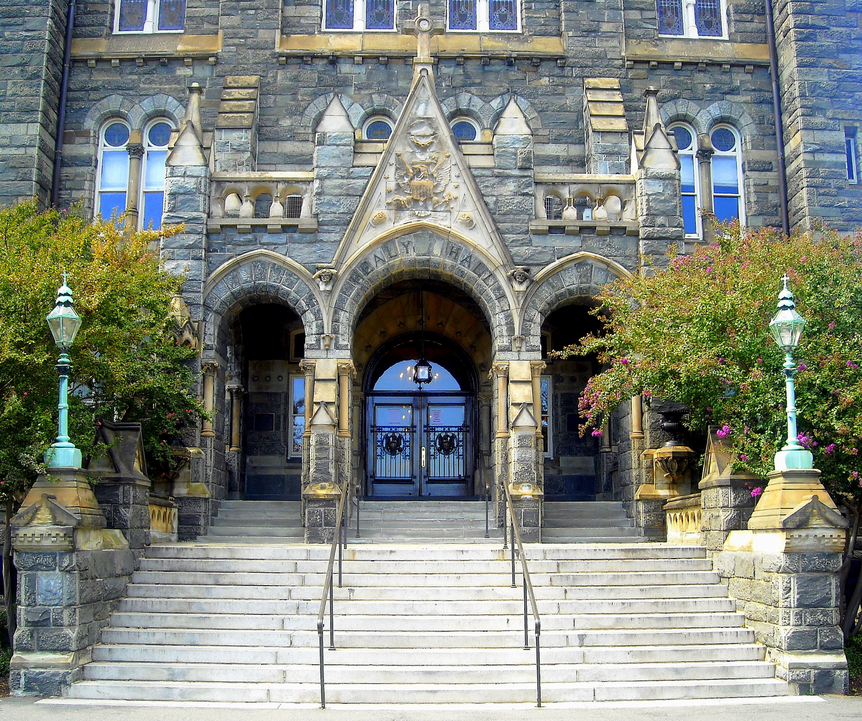 Entrance to Healy Hall located on the campus of Georgetown University in Washington, D.C.